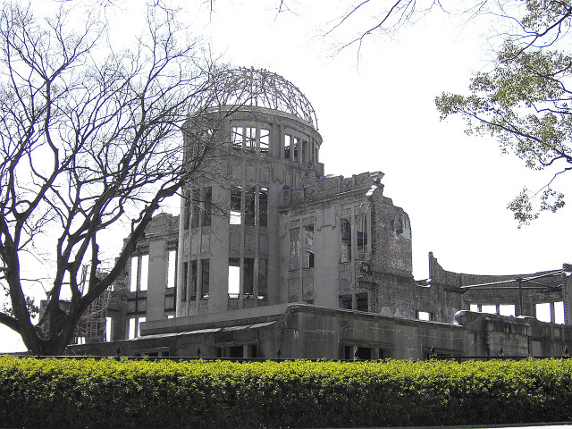 by Atomic-bomb (in Hiroshima Peace park)